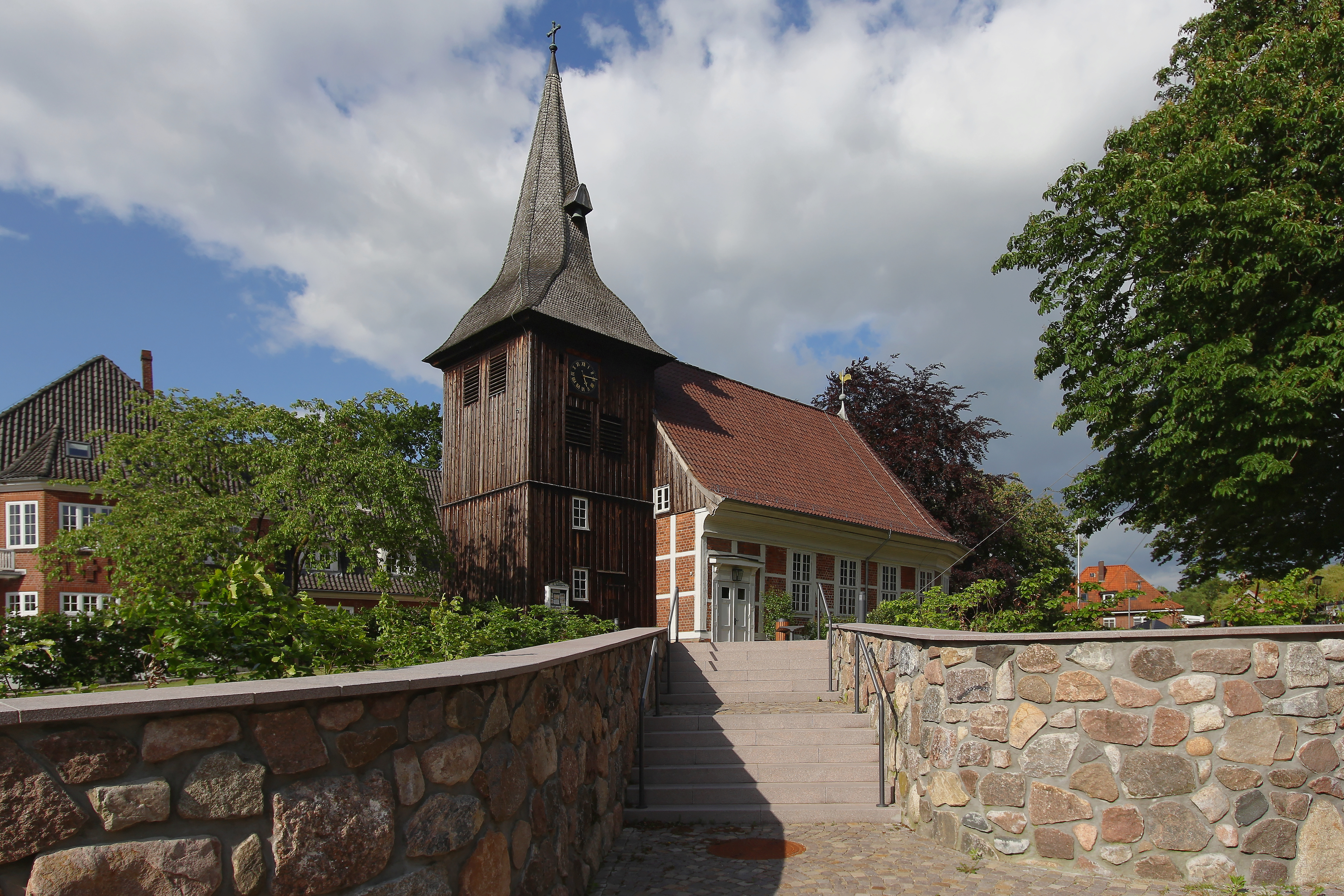 Church St. Salvatoris, Geesthacht, stairs from street to churchyard